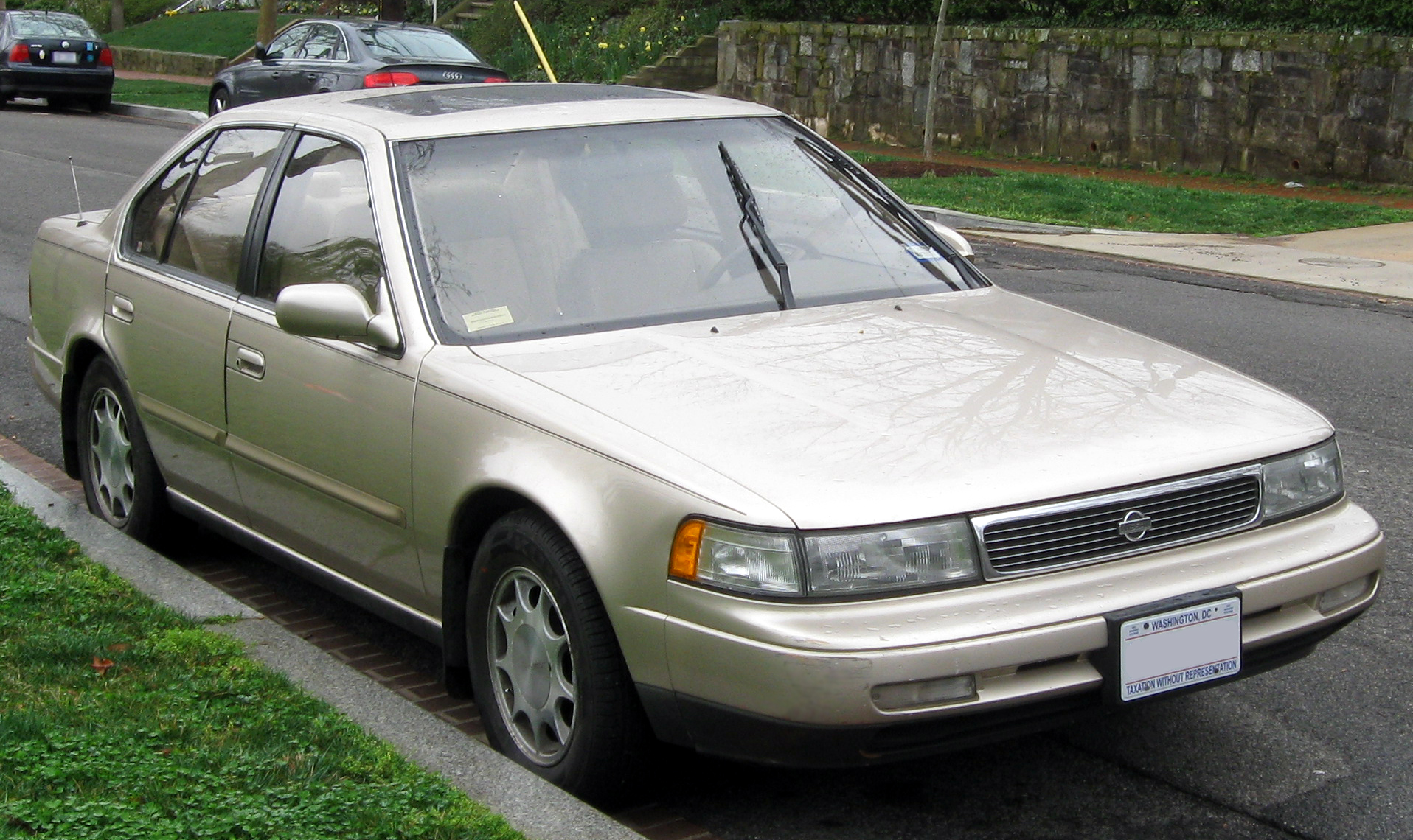 1992-1994 Nissan Maxima photographed in Washington, D.C., USA.